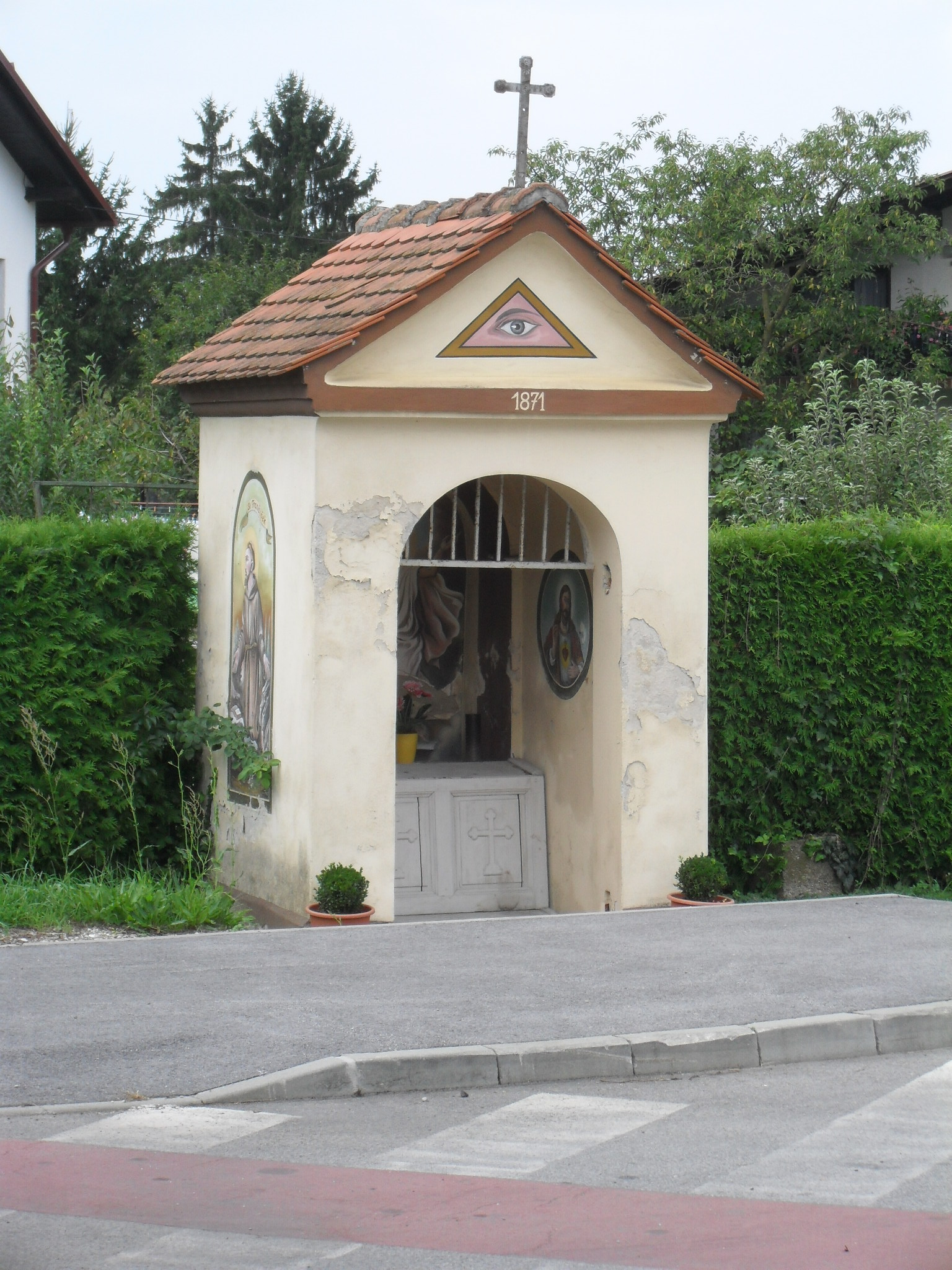 Chapel from 1887 in Tišina, Prekmurje, Slovenia